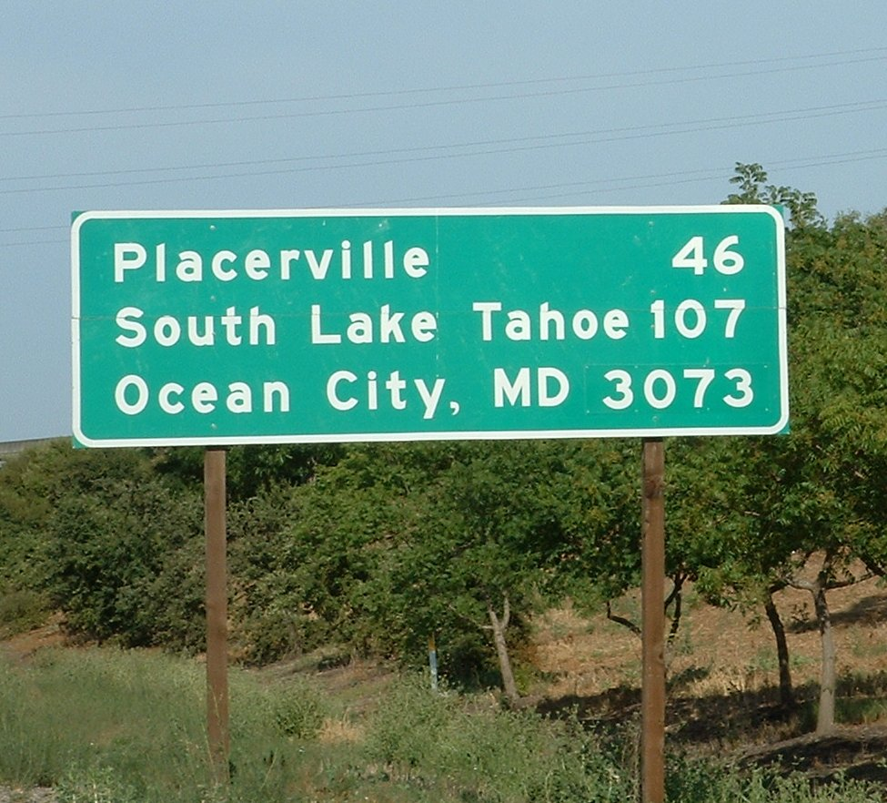 own work.